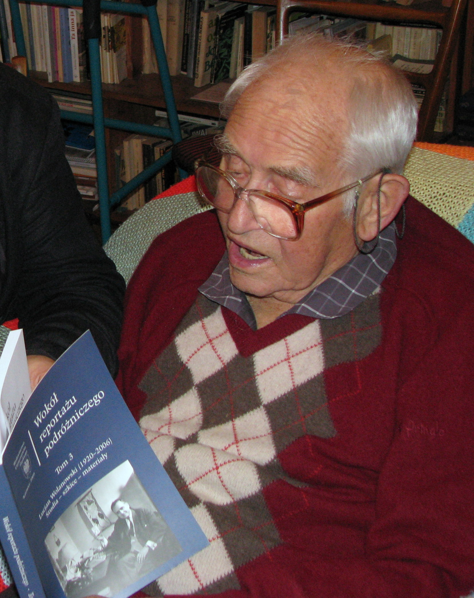 Ryszard Matuszewski (b. August 18, 1914 in Warsaw, Poland, d. April 29, 2010 in Warsaw, Poland) - Polish literary critic, writer, essayist and publicist. He lived in Warsaw, Poland